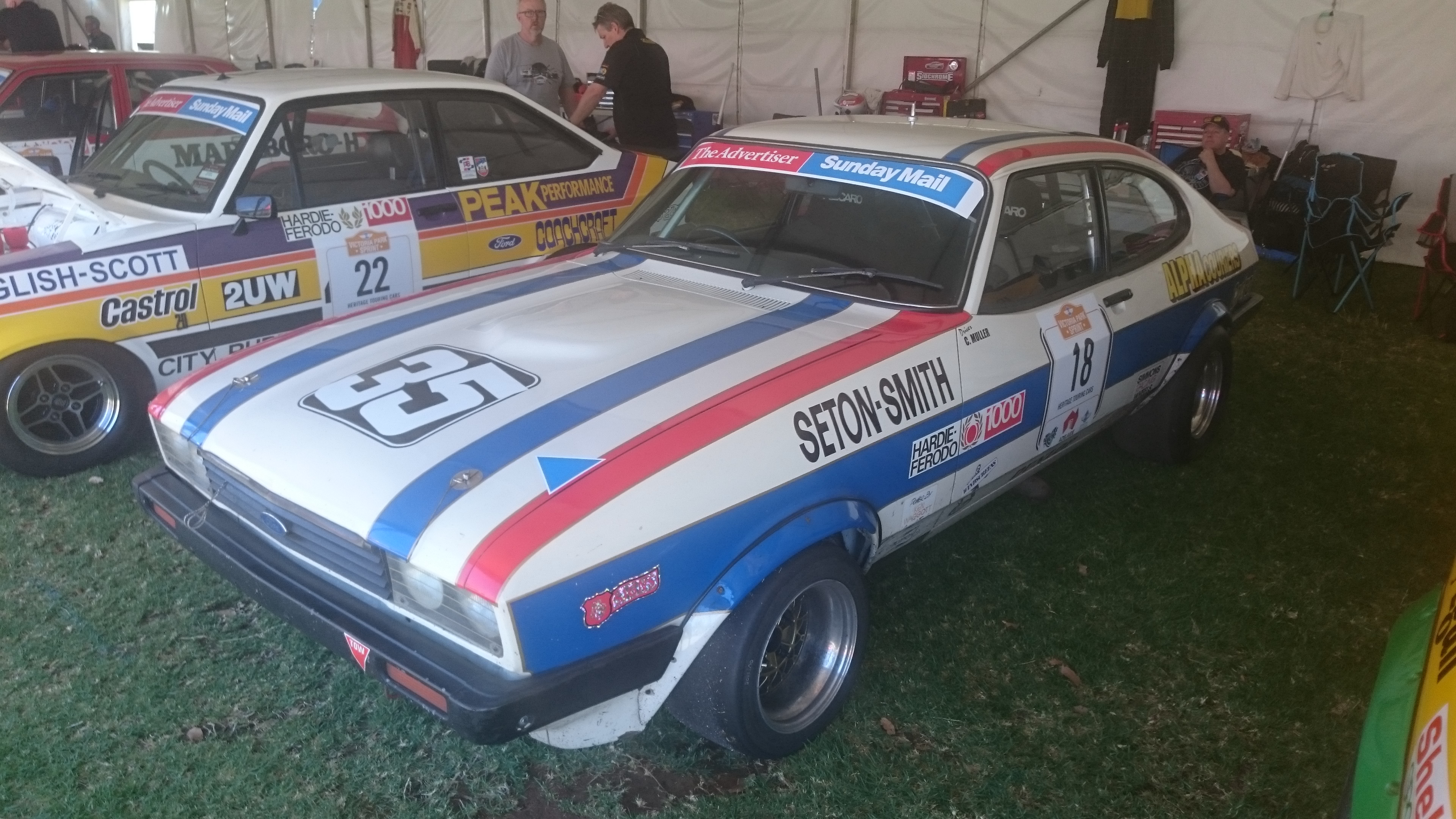 The Ford Capri 3.0S of Carl Muller at the 2017 Victoria Park Sprint in Adelaide, South Australia. The car was originally raced by Barry Seton as a Group C Touring Car.